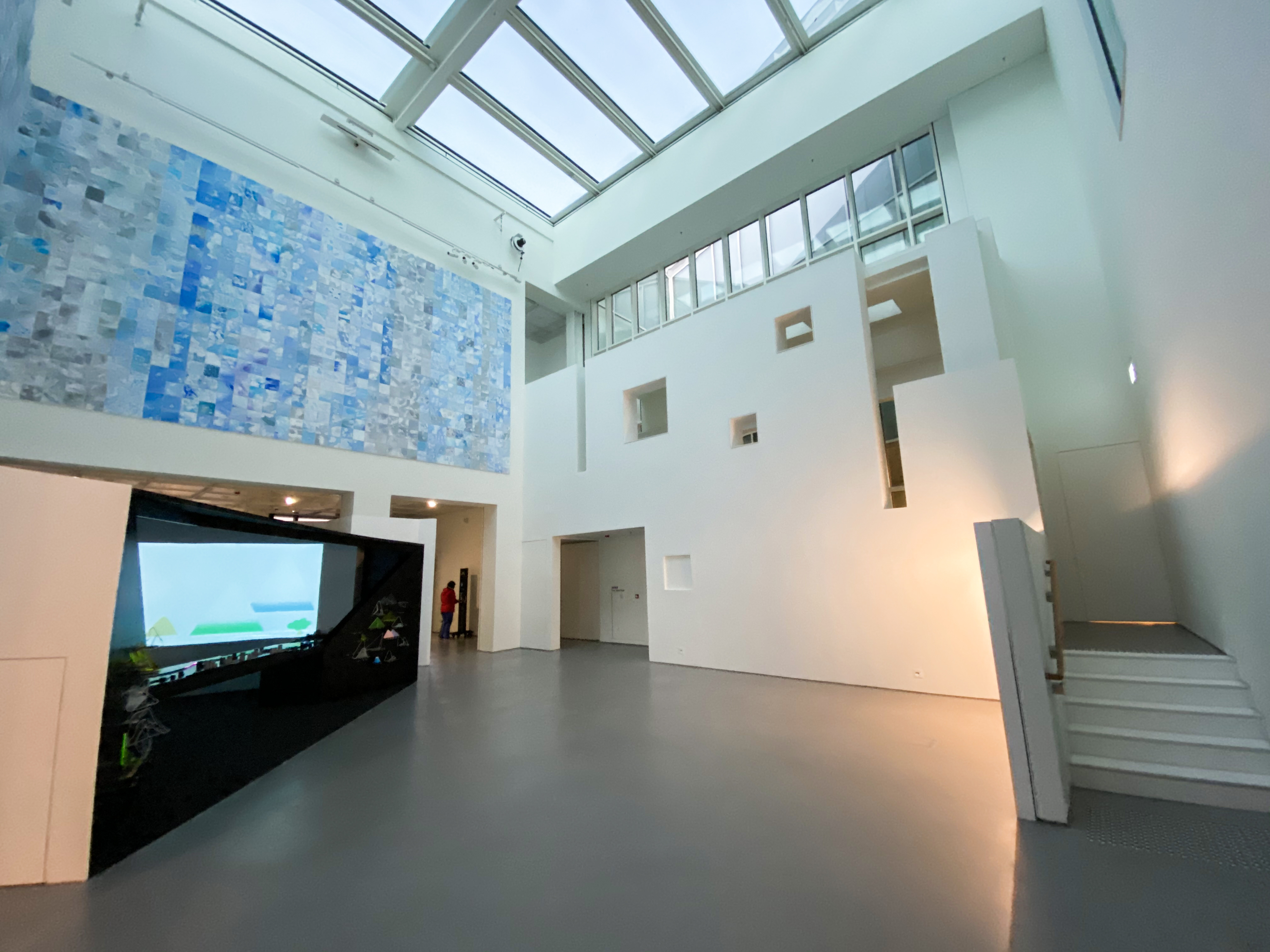 Hong Kong Museum of Art The Wing Void